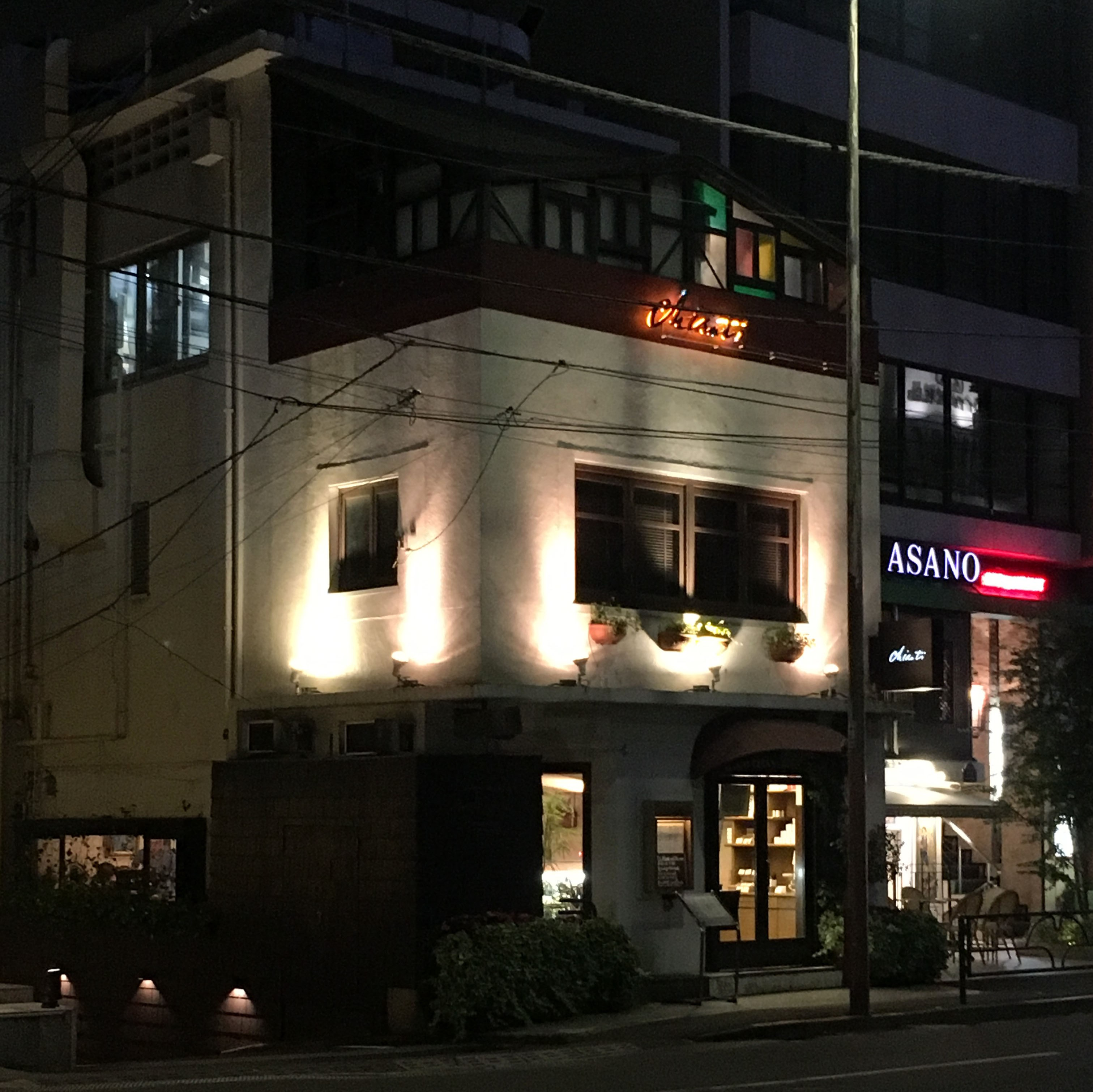 Chianti (Italian restaurant in Tokyo, Japan)